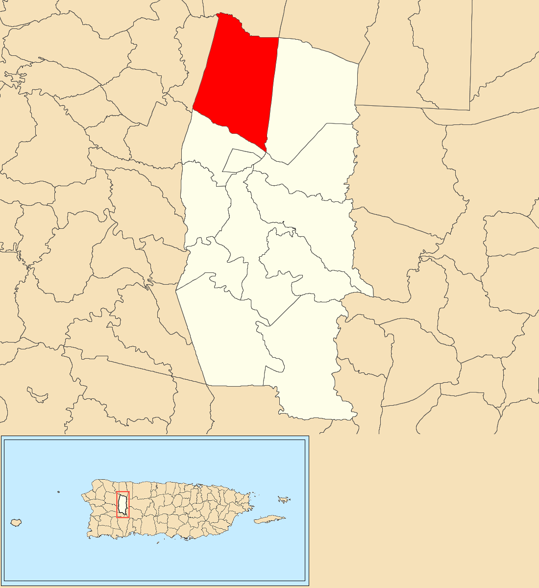 Piletas, Lares, Puerto Rico locator map